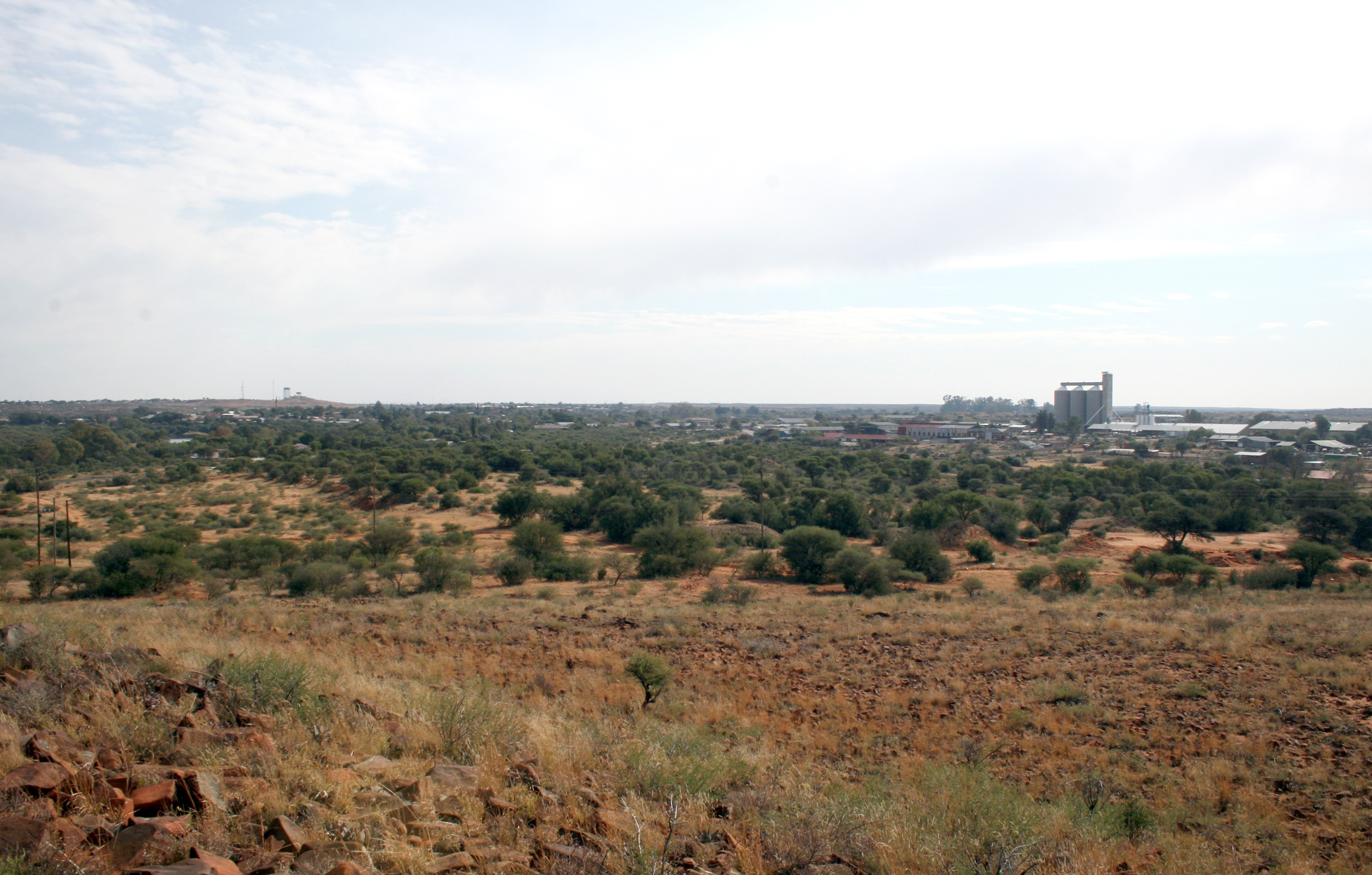 archaeological site of Canteen Kopje in South Africa - general view